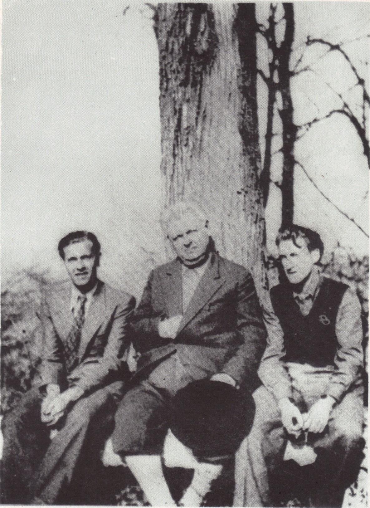 Romanian writer Mihail Sadoveanu (1880-1961) with his sons Mircea (1914-1986) and Paul-Mihu (1920-1944).